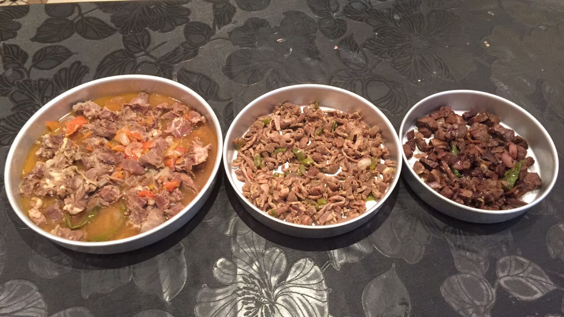 A dish from the Southern Region of Saudi Arabia eaten as breakfast on Eid al-Adha.